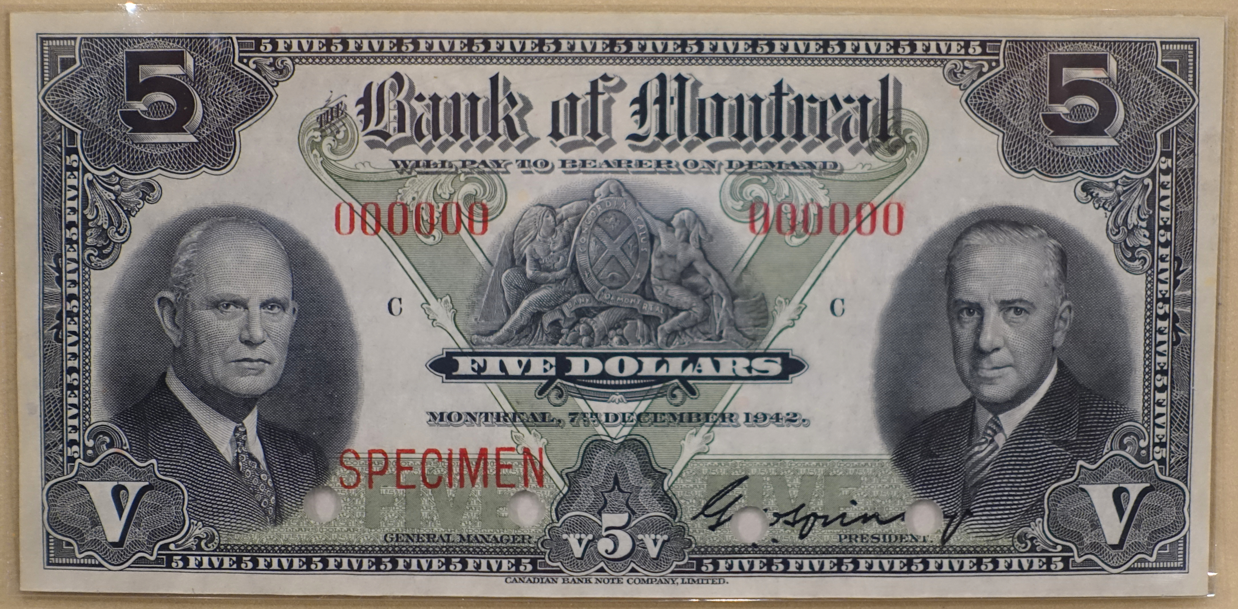 Exhibit in the Bank of Montréal Museum - Bank of Montreal, Main Montreal Branch - 119, rue Saint-Jacques, Montreal, Quebec, Canada.